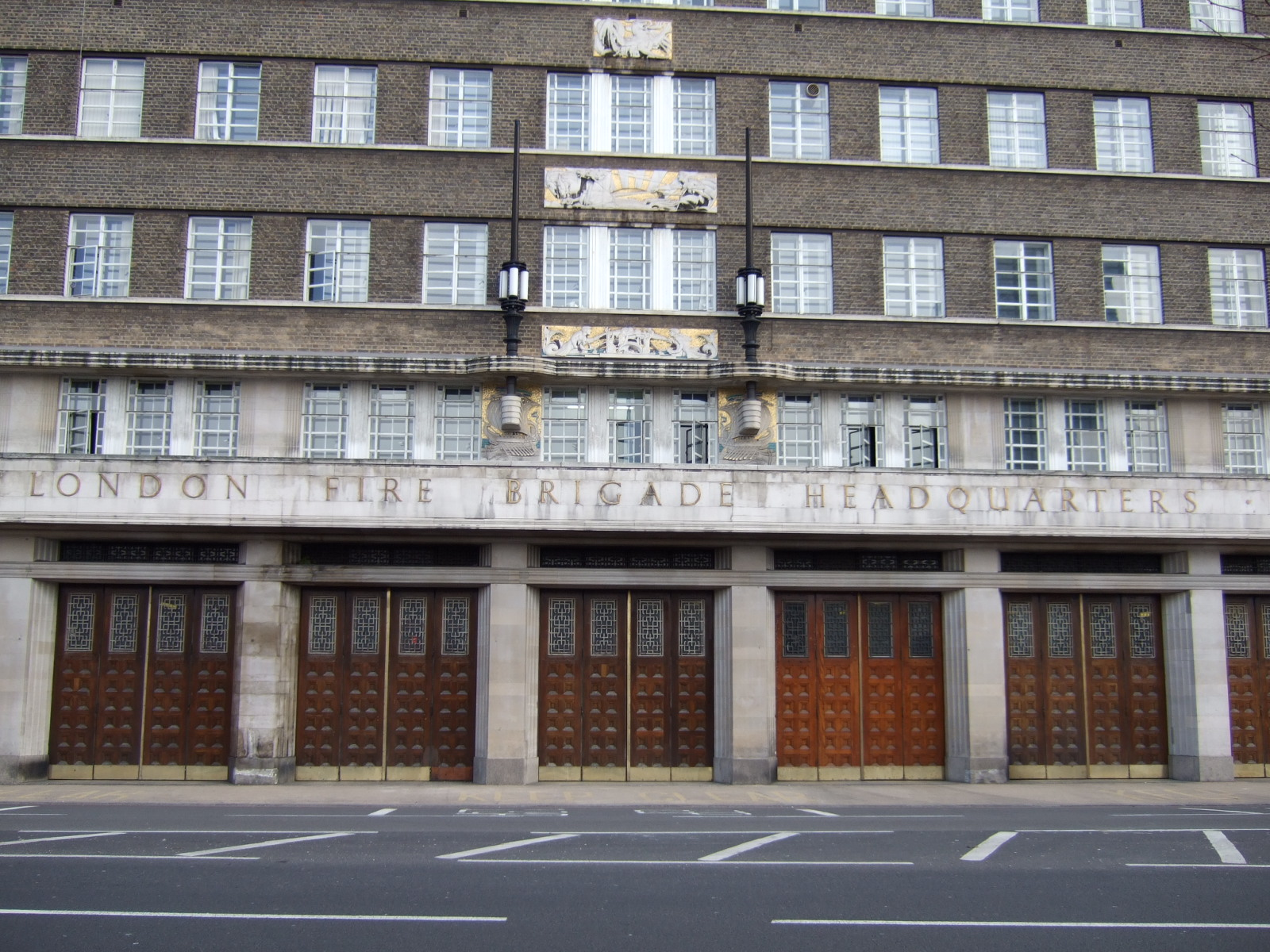 The former (1937-2007) London Fire Brigade's headquarters was at Lambeth, on the Albert Embankment, next to the River Thames, and close to Lambeth Bridge. Bas-reliefs on the facade are by sculptor Gilbert Bayes.